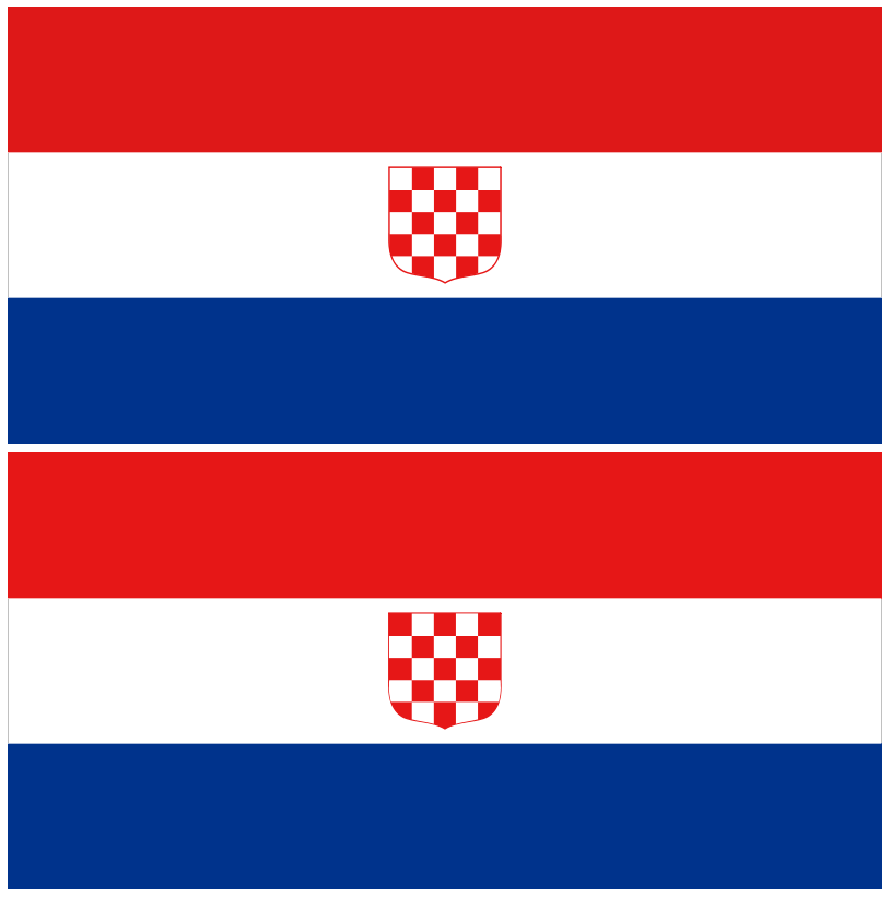 Flags of Croatia from 1990